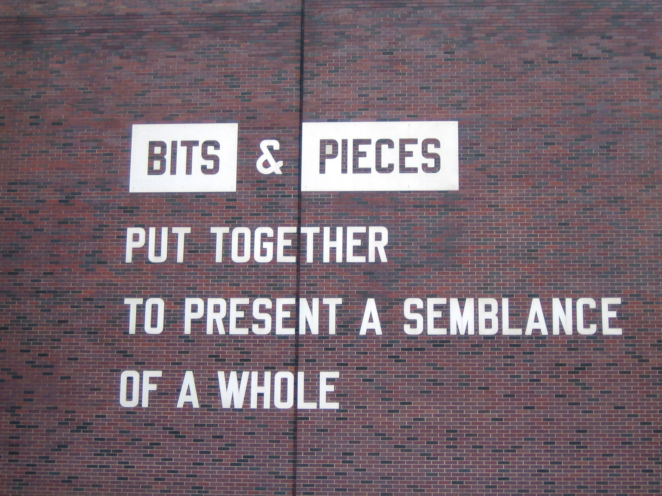 Photograph of Bits & Pieces Put Together to Present a Semblance of a Whole, by Lawrence Weiner, laser-cut aluminum typography on brick. Walker Art Center, Minneapolis, Minnesota.